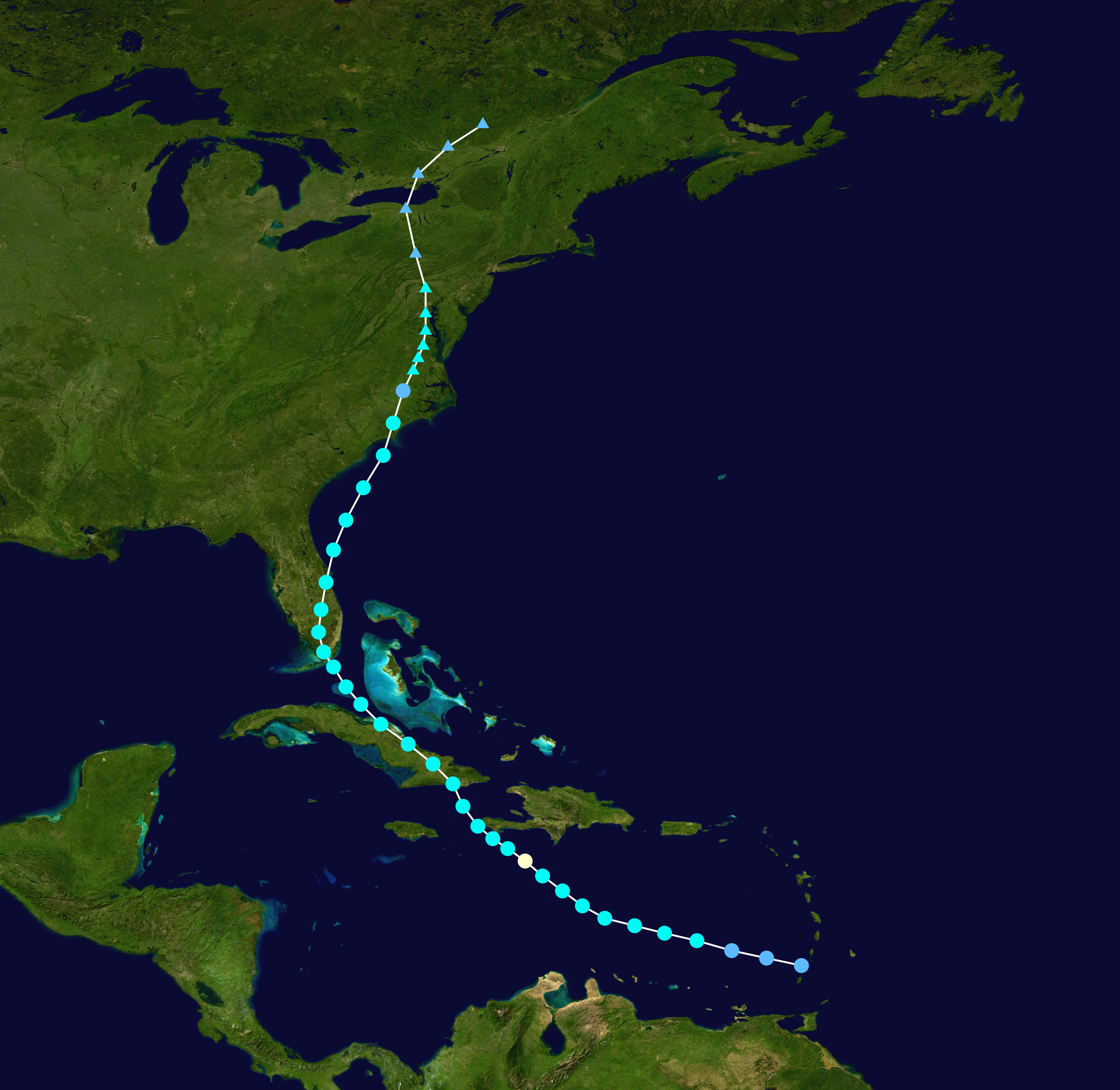 Track map of Hurricane Ernesto of the 2006 Atlantic hurricane season. The points show the location of the storm at 6-hour intervals. The colour represents the storm's maximum sustained wind speeds as classified in the Saffir–Simpson scale (see below), and the shape of the data points represent the nature of the storm, according to the legend below. Saffir–Simpson scale Tropical depression≤38 mph≤62 km/h Category 3111–129 mph178–208 km/h Tropical storm39–73 mph63–118 km/h Category 4130–156 mph209–251 km/h Category 174–95 mph119–153 km/h Category 5≥157 mph≥252 km/h Category 296–110 mph154–177 km/h Unknown Storm type Tropical cyclone Subtropical cyclone Extratropical cyclone / Remnant low / Tropical disturbance / Monsoon depression